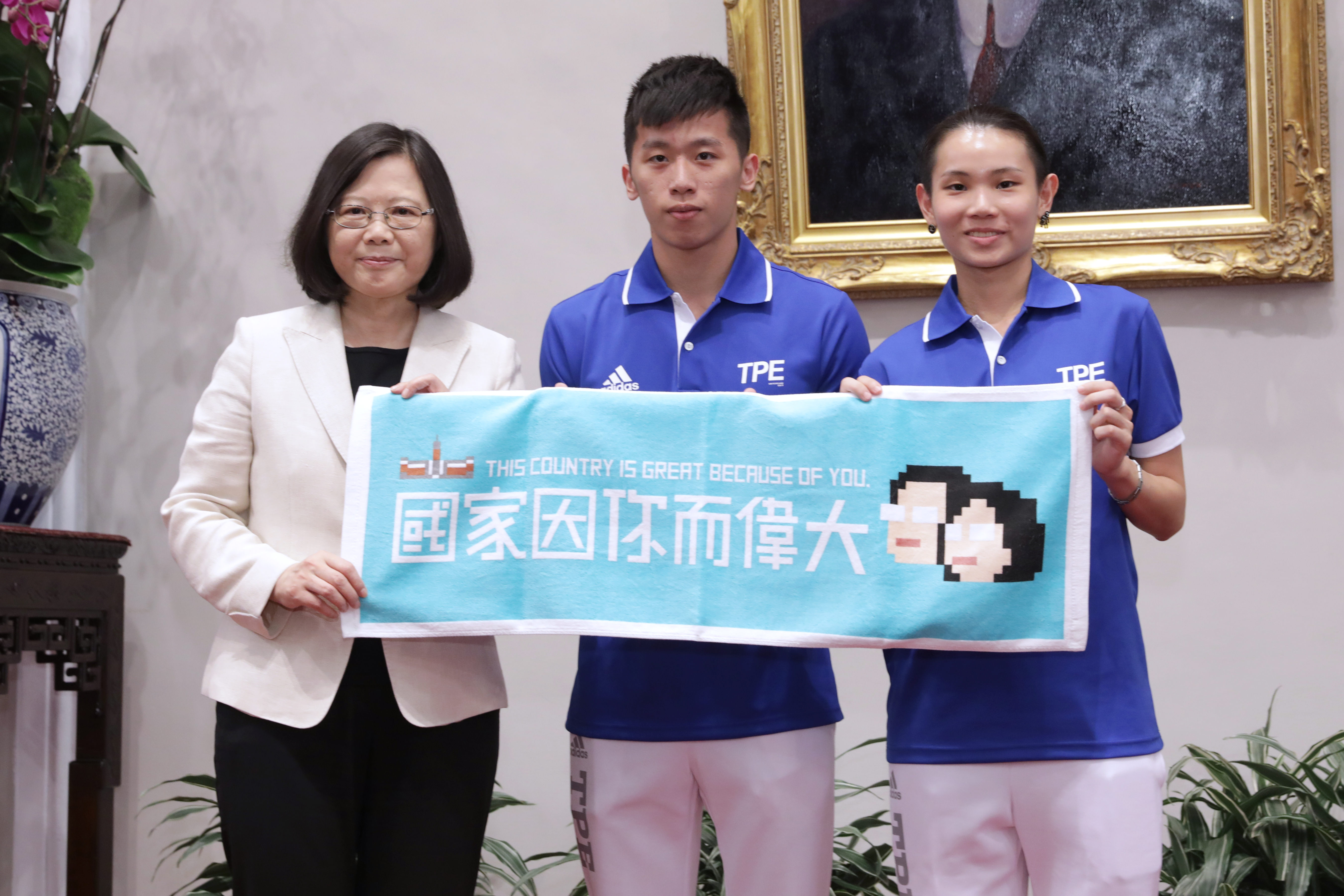 授權方式及範圍：中華民國總統府│政府網站資料開放宣告 Authorization Method & Scope: Office of the President, Republic of China (Taiwan) | Government Website Open Information Announcement